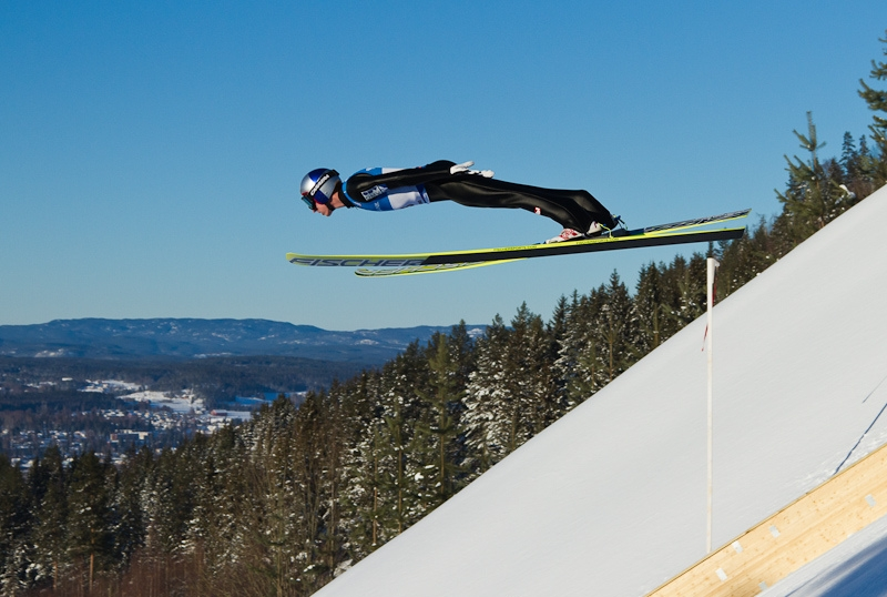 World Cup Vikersund HS225 - Pr.omg. - Gregor Schlierenzauer